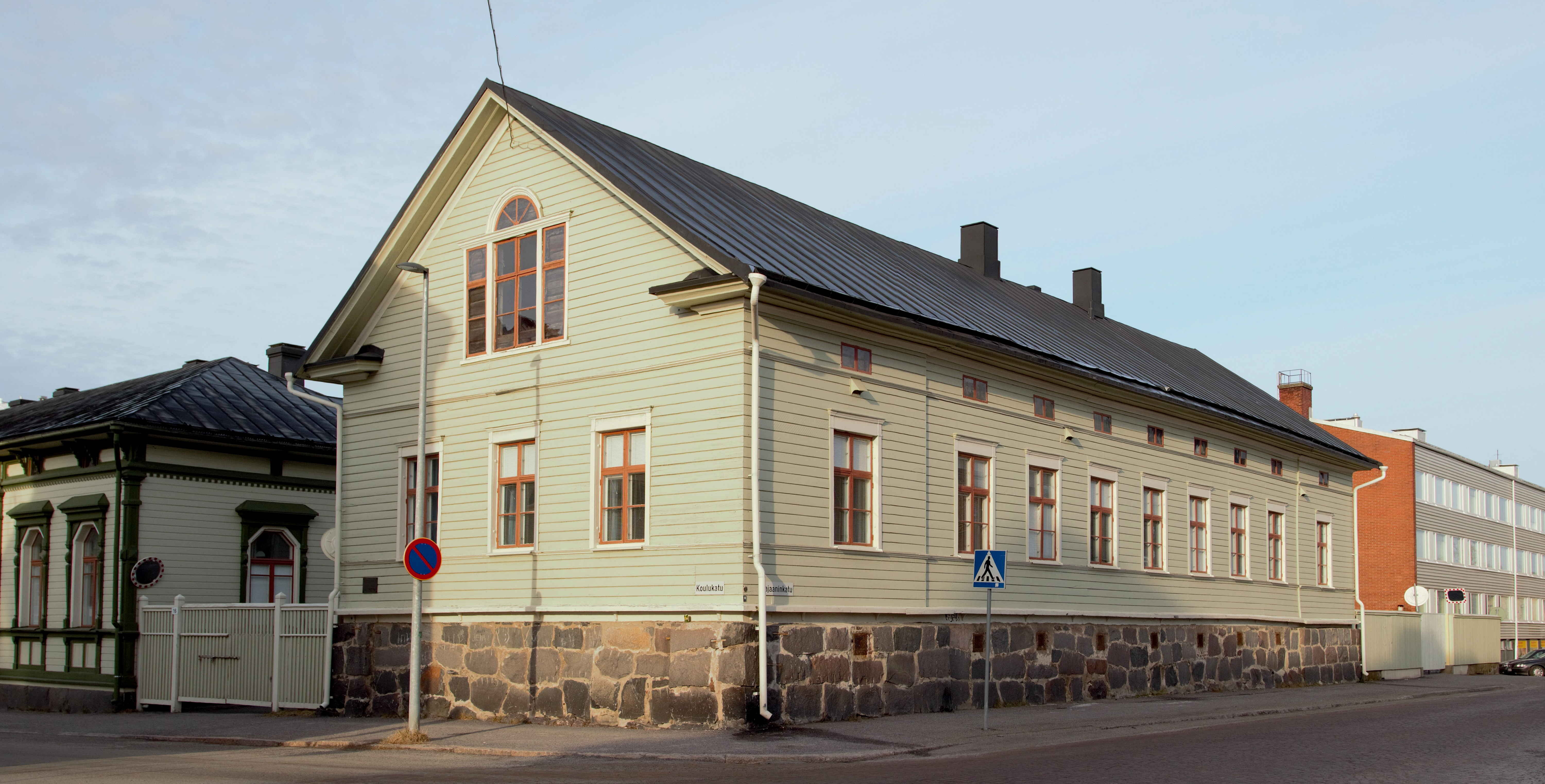 Kajaanintulli Primary School was built as an almshouse (poorhouse) in 1831.